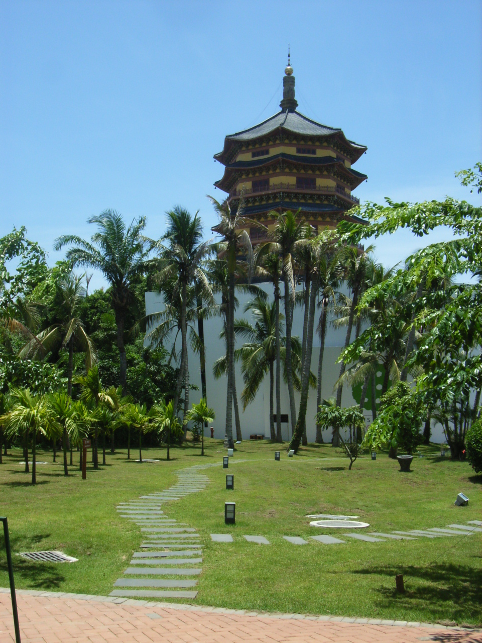 Boao Aquapolis, Qionghai County, Hainan Island, China User:HNPIX